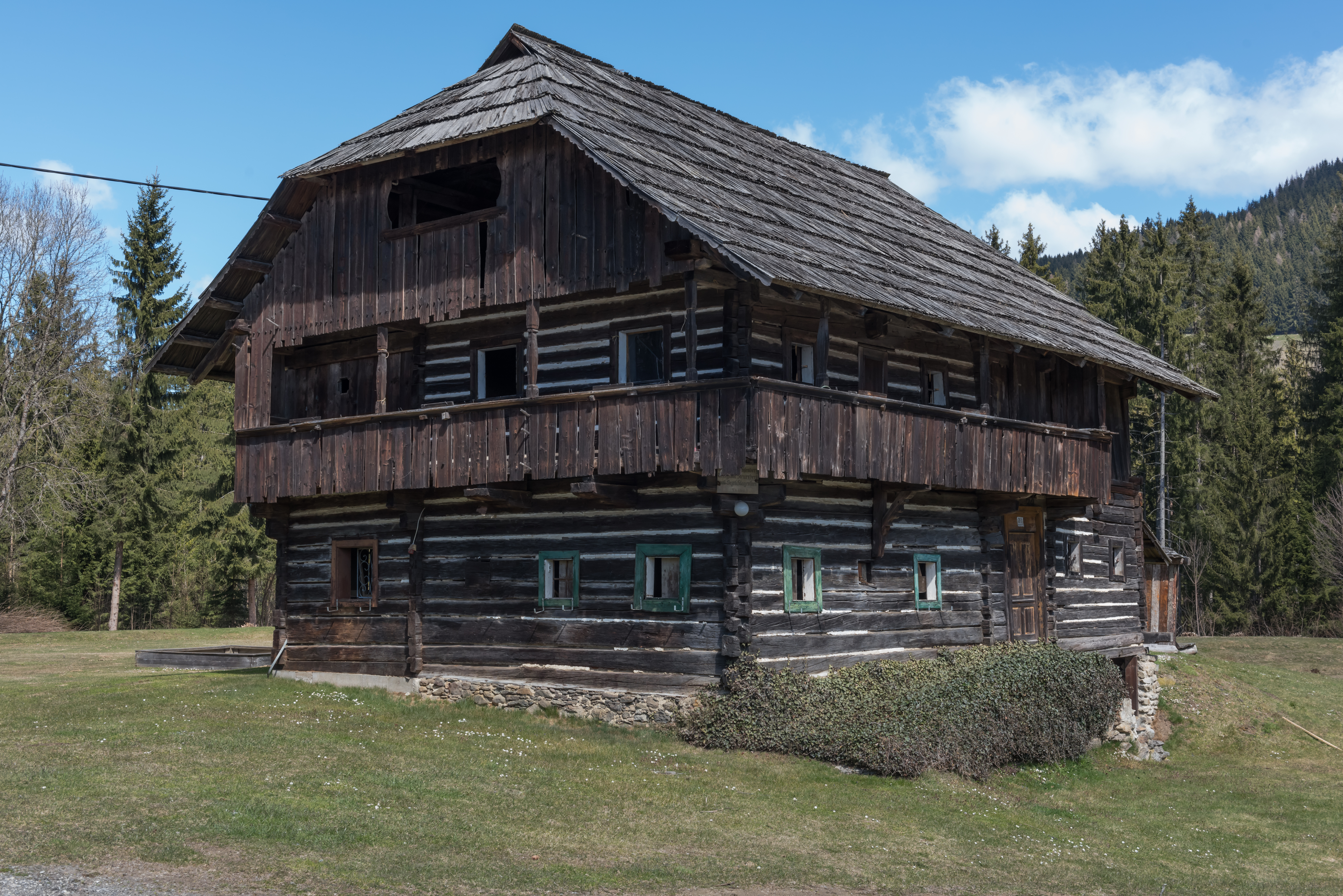 Sacristan house at Wachsenberg #23, municipality Steuerberg, district Feldkirchen, Carinthia, Austria, EU